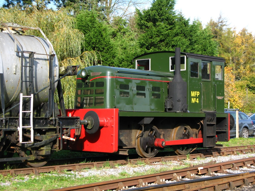 MFP No. 4, a John Fowler 0-4-0 diesel-mechanical shunter built in 1958 for the Ministry of Fuel and Power, is seen in the sidings at Staverton station on the South Devon Railway.